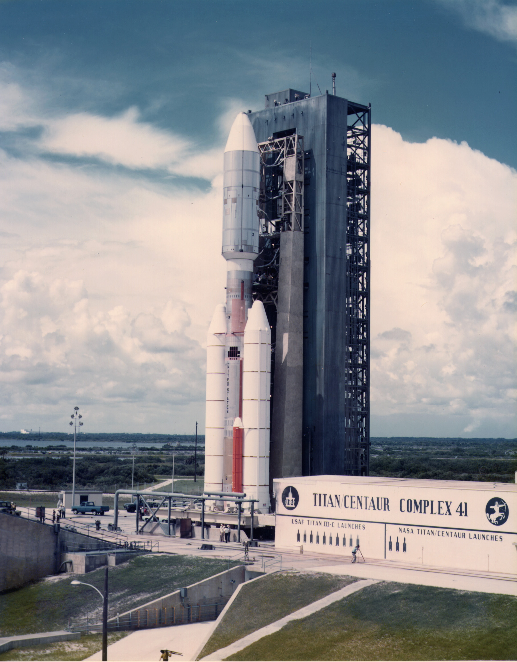 Titan III E/Centaur with Viking 2 on Launch Complex 41 before launch.